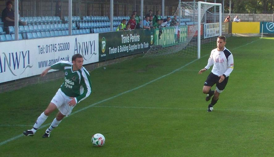 Geoff Kellaway in action for ATFC during a Welsh Premier League game at Rhyl's Belle Vue in a 0-0 draw